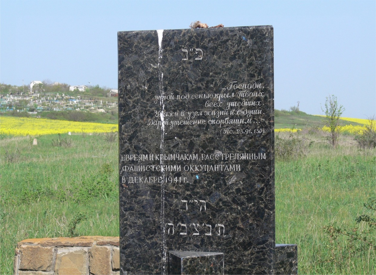 memorial stone to the Jewish and Krymchak victims of the Simferopol massacre (Dec. 1941)